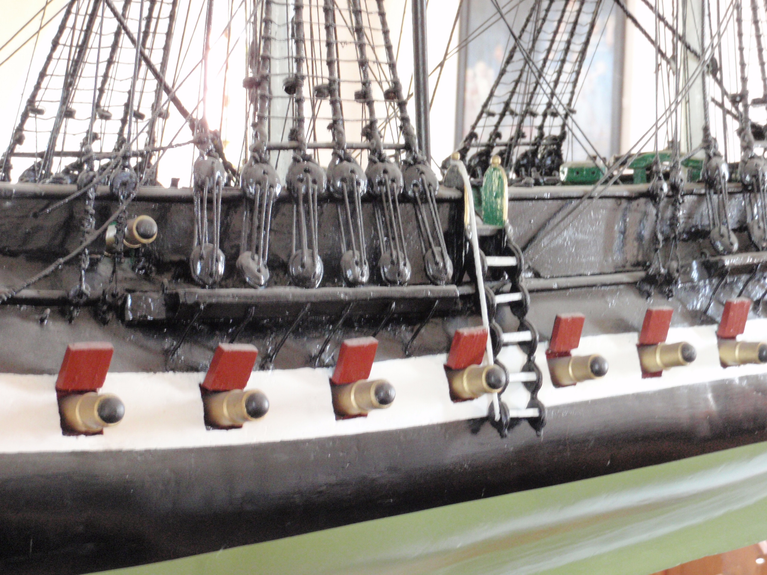 Model Ship in Nysted Church